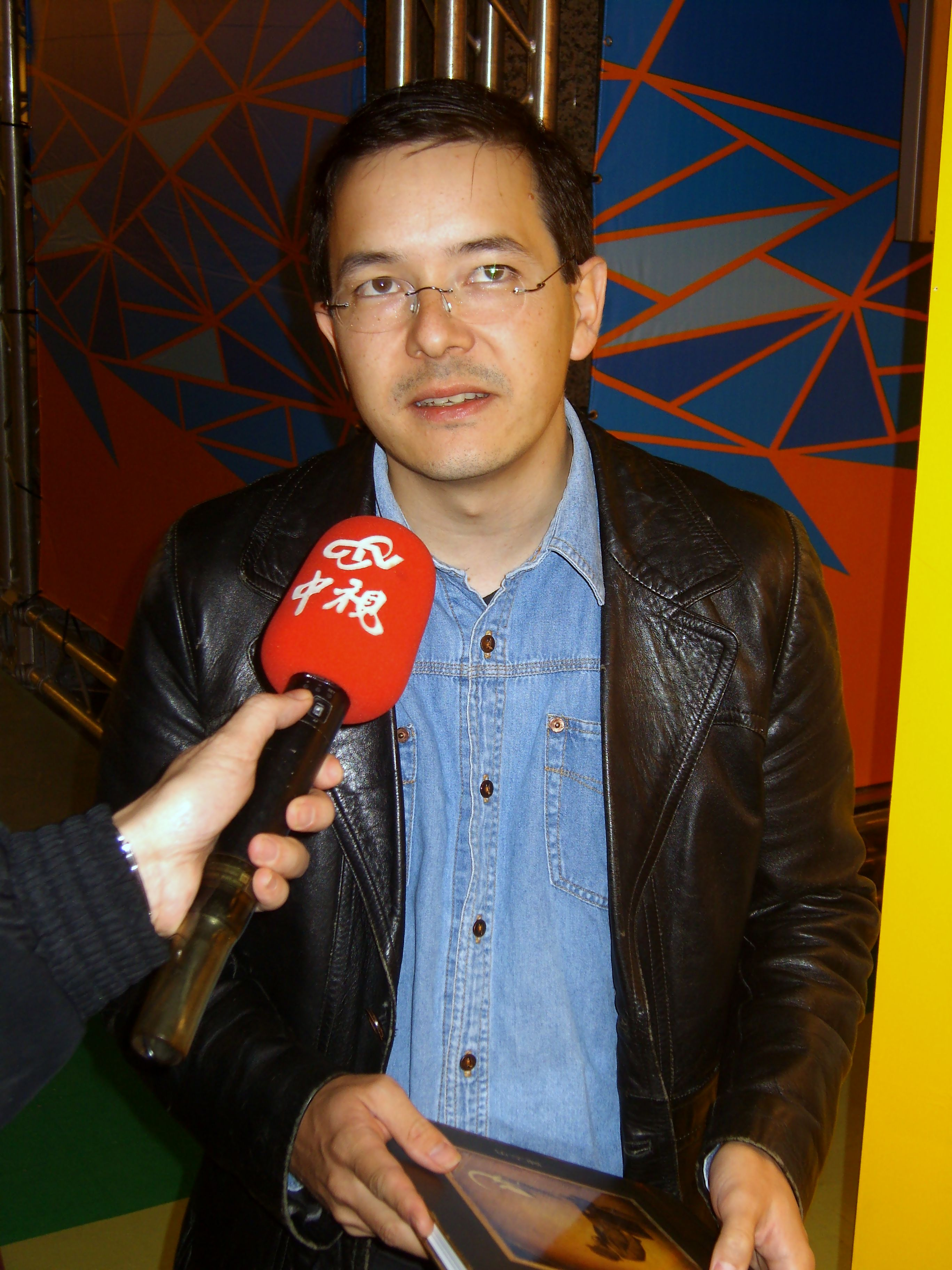 2008 Taipei International Book Exhibition - Shaun Tan from Australia.